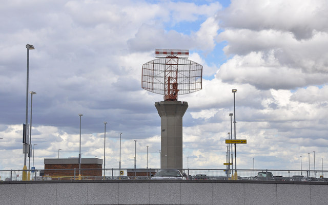 Parabolic antenna of air traffic control radar, Heathrow airport, London, UK. The curved dish is the primary radar, which locates aircraft. The smaller rectangular antenna on top is the secondary radar, which interrogates the aircraft transponder to identify the aircraft.